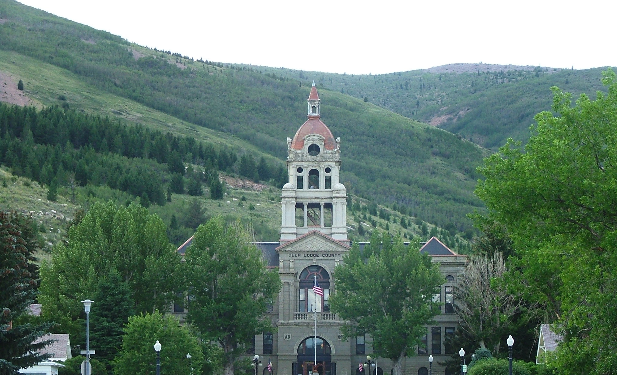 Architecturally significant courthouse of Deer Lodge County, Montana